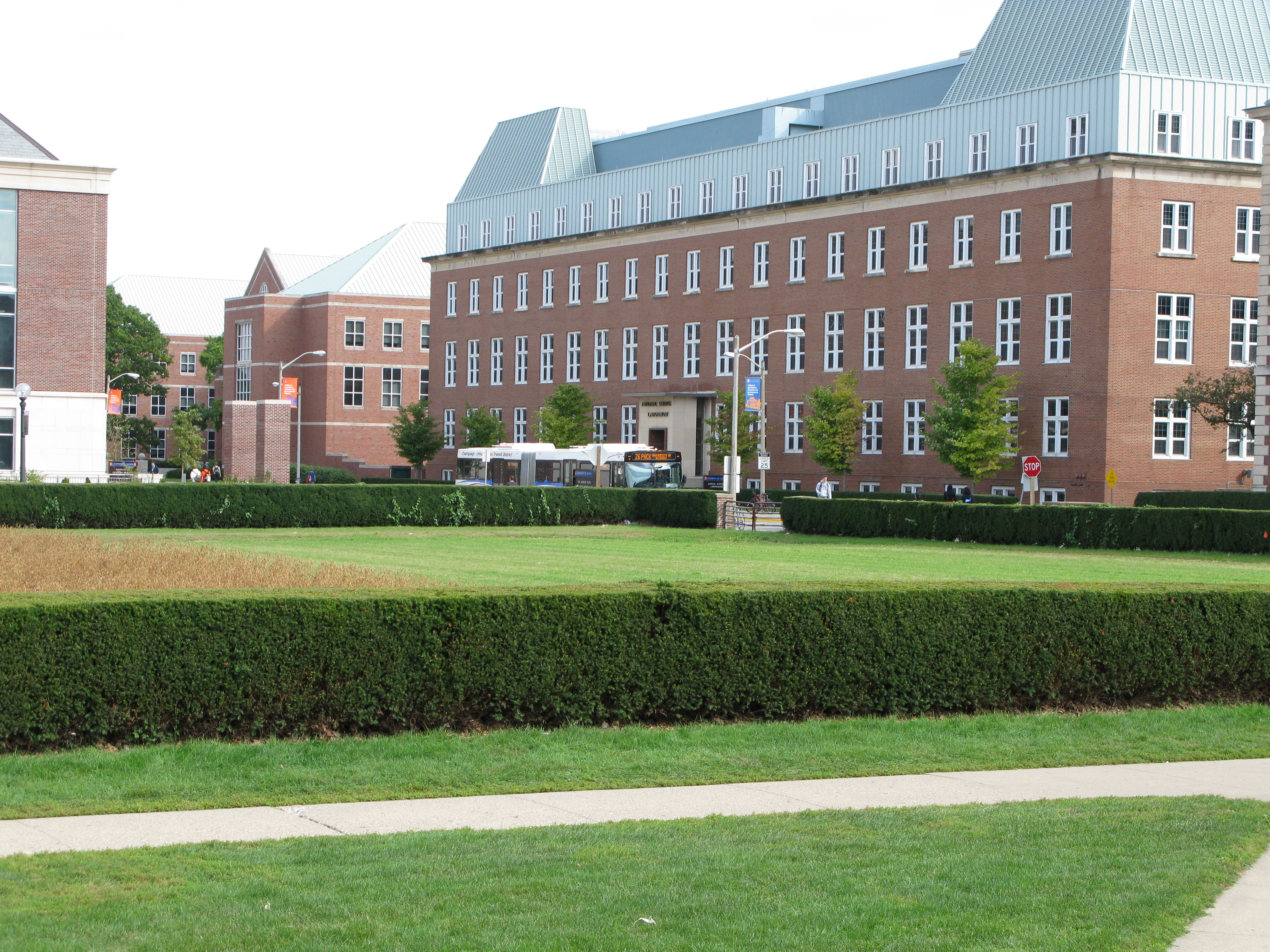 The UIUC Animal Sciences Lab, from the northwest